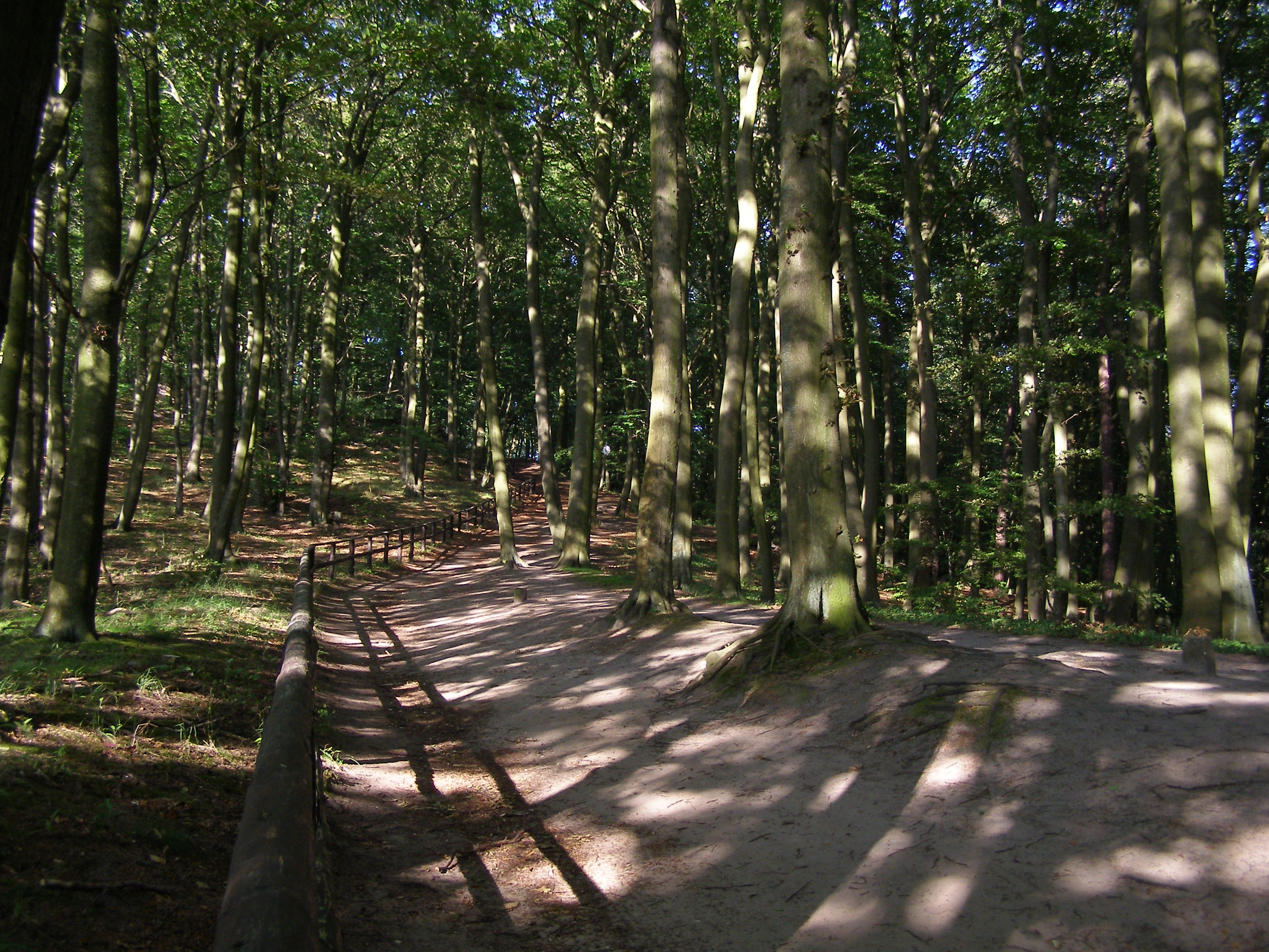 Miedzyzdroje - road to the Kawcza Mountain